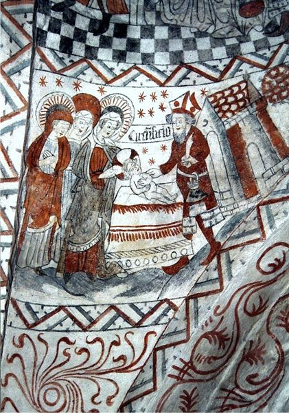 Frescoes by The Isefjord Master from apr. 1460-1480 in Tuse Kirke (church)